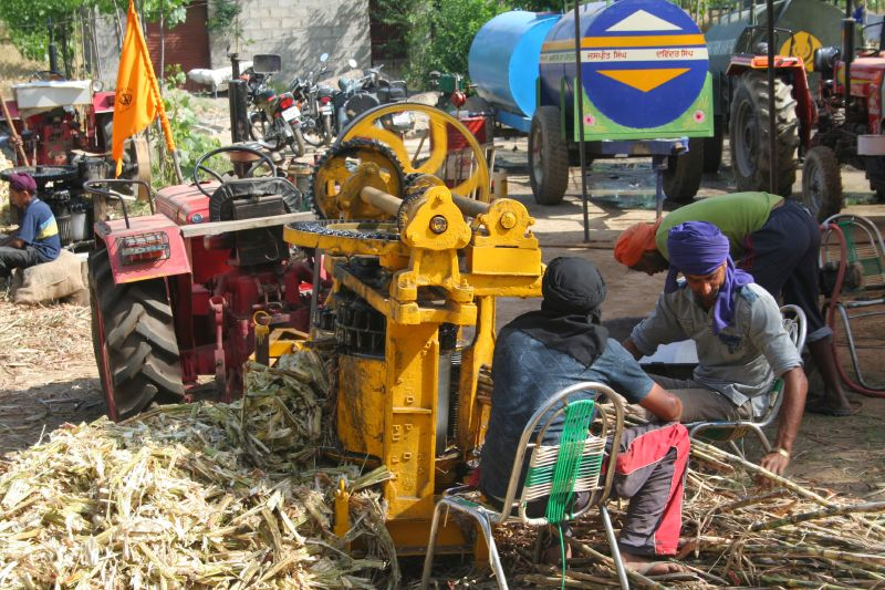 Two young Sikhs, with raw and crushed sugarcane at their feet, sitting next to a sugarcane crusher and a tractor carrying an orange flag. The occasion is Vaisakhi, a Sikh holiday. – Original caption: Sikhs doing sewa (service to the community) by giving free sugarcane juice to everyone travelling to Anandpur Sahib on Vaisakhi.